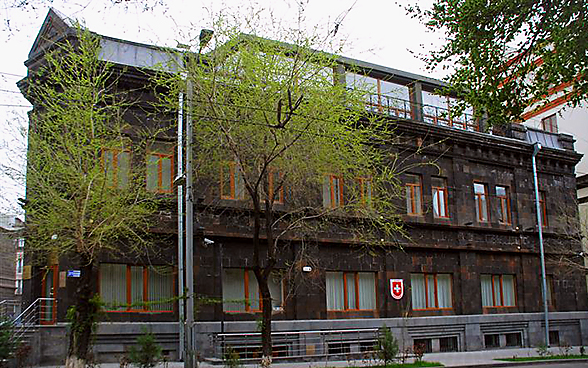 Embassy of Switzerland in Aremenia